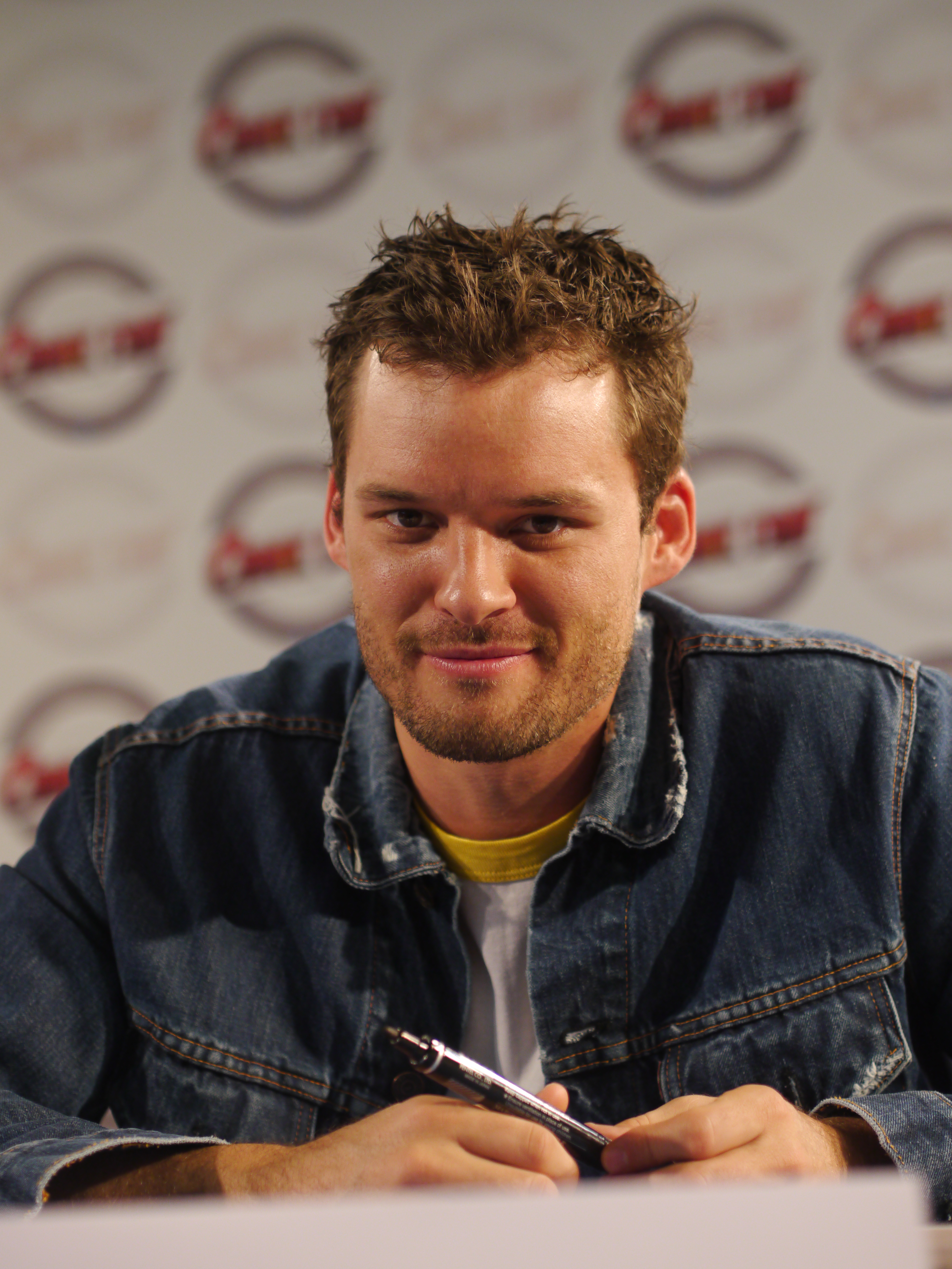 Japan Expo Festival, 13th impact